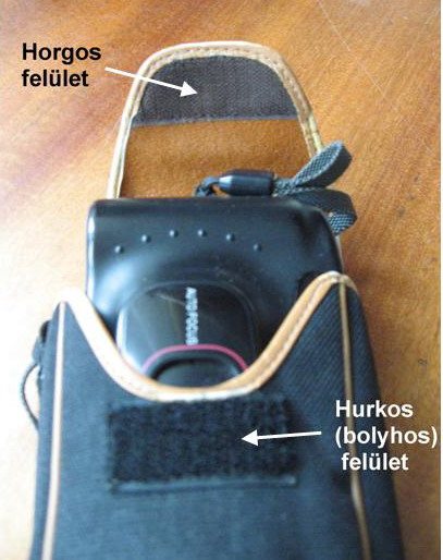 Velcro on a camera case (Hurkos felület = Loops, Horgos felület = Hooks)